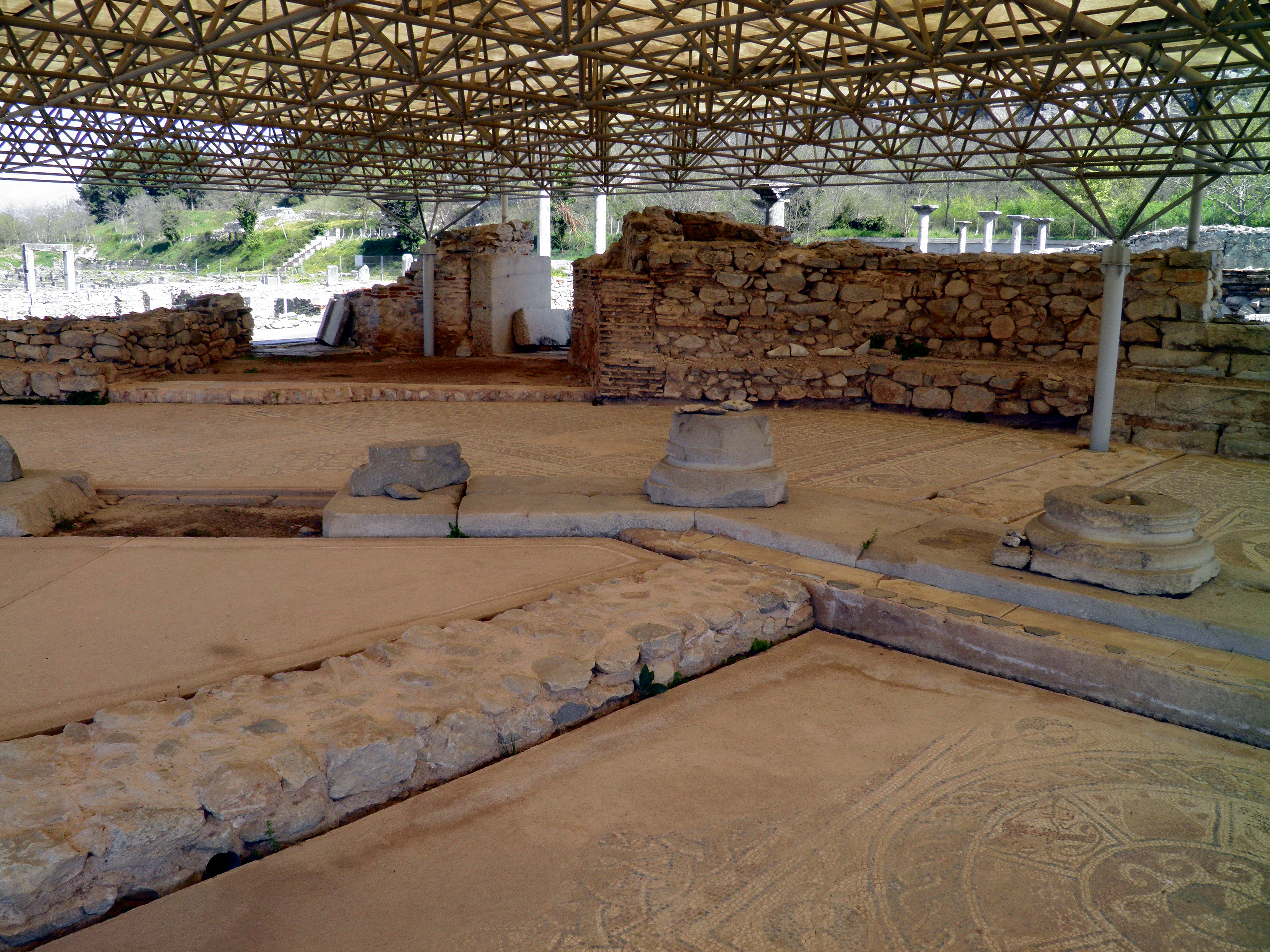 Mosaics in the Octagonal Basilica, Philippi